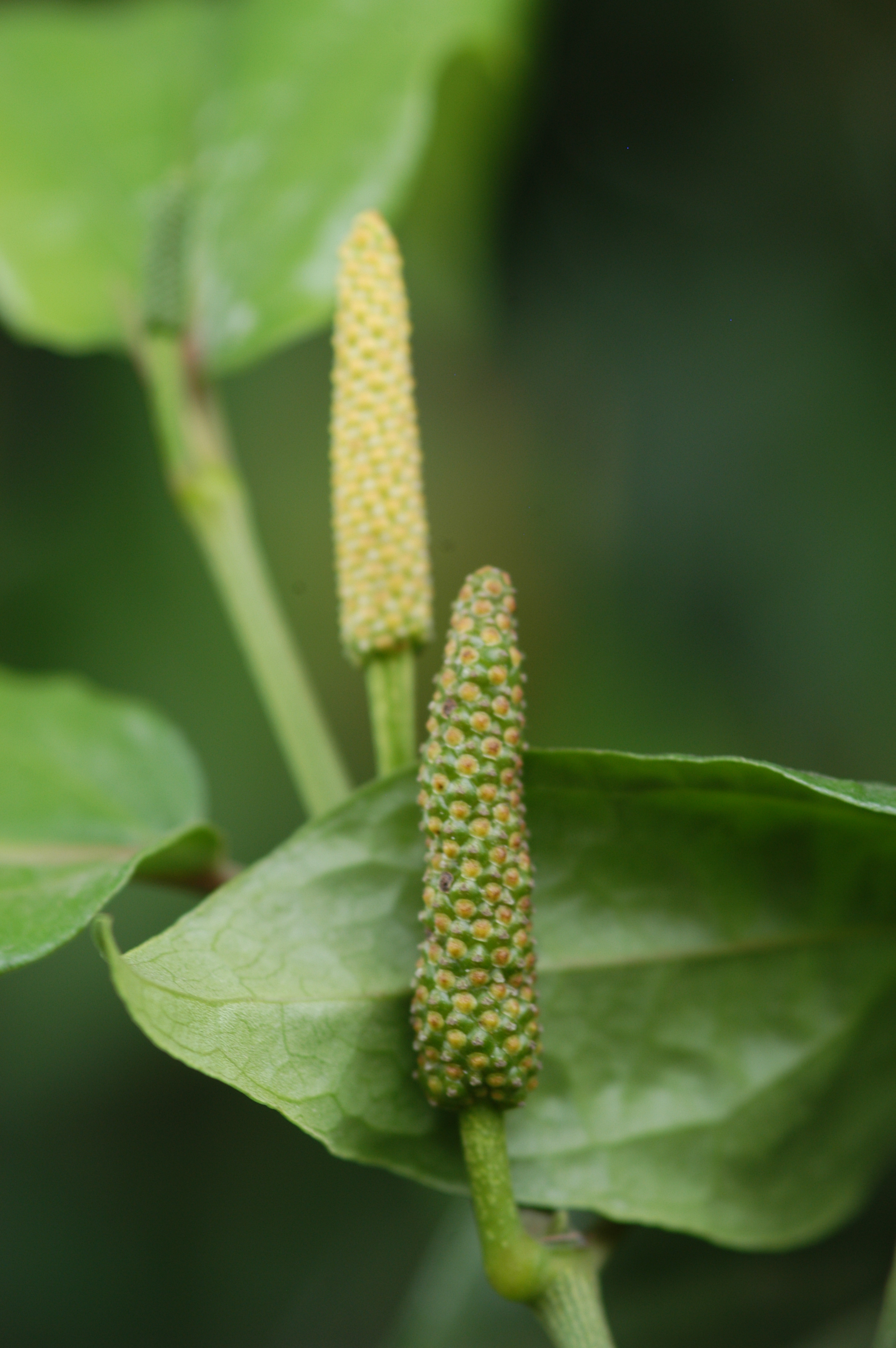 Piper retrofractum